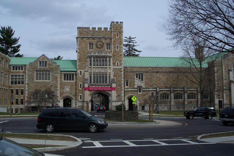 In the Town of Poughkeepsie, in fron of Vassar College Taylor Hall. See also